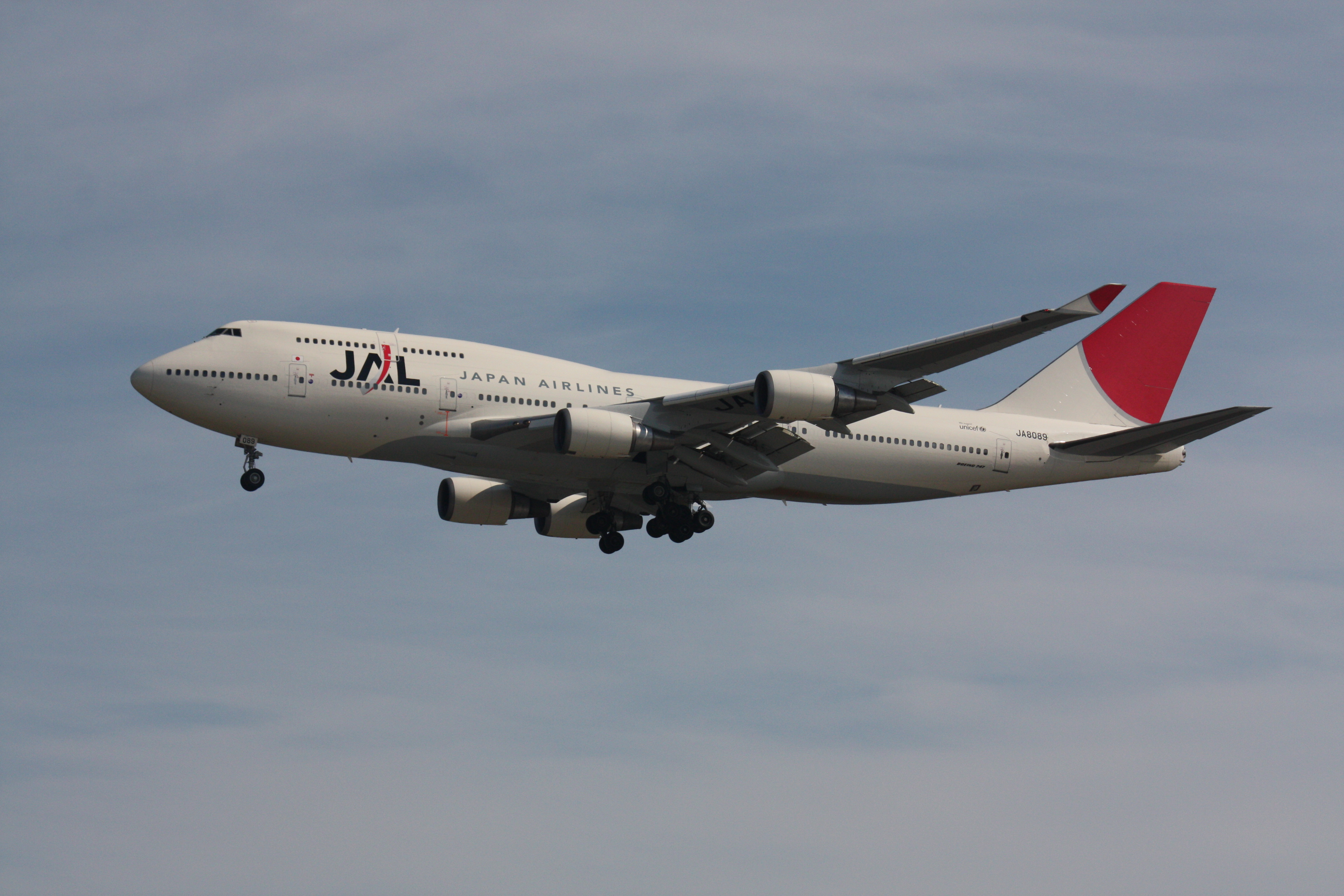 A Japan Airlines Boeing 747-448 landing at Vancouver International Airport